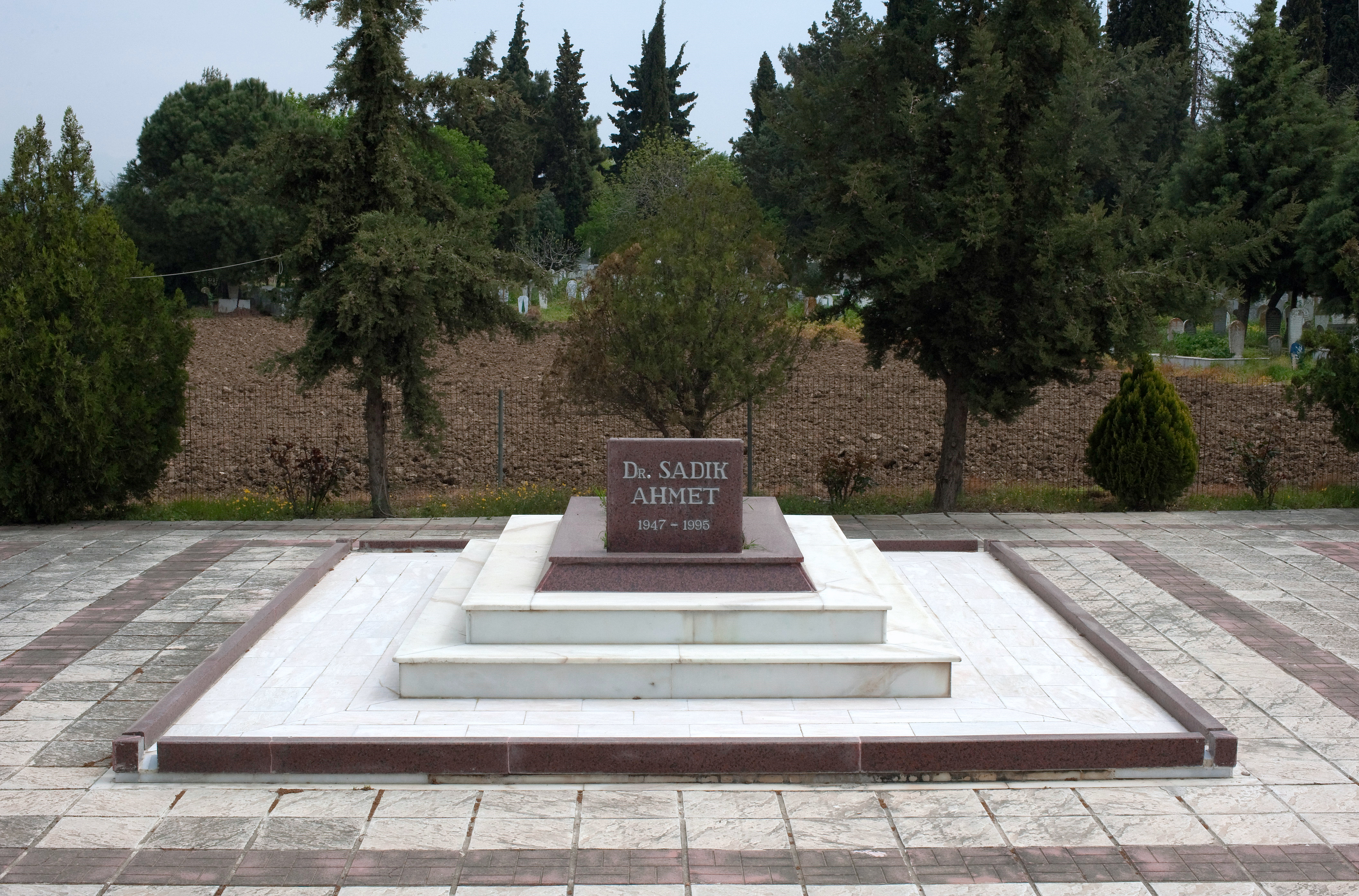 Grave of Dr. Sadık Ahmet, in Gümülcine (Komotini, Rhodope), Greece.